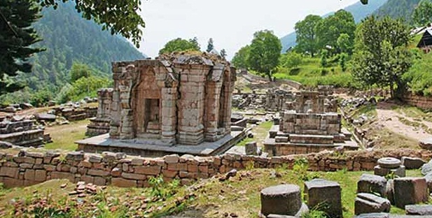 A view of the temple complex at Wangath Naranag